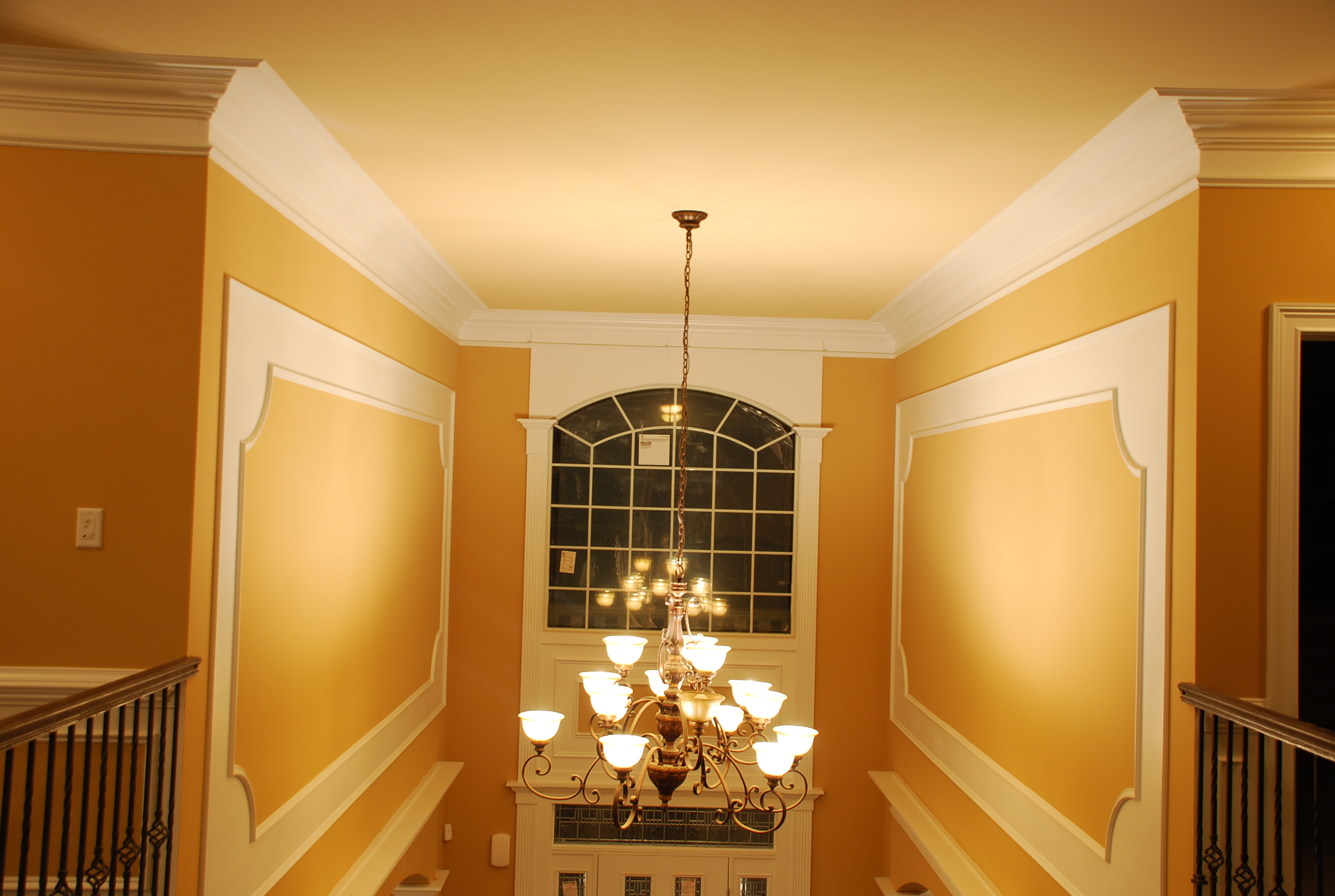 Foyer Crown molding and Wall panels